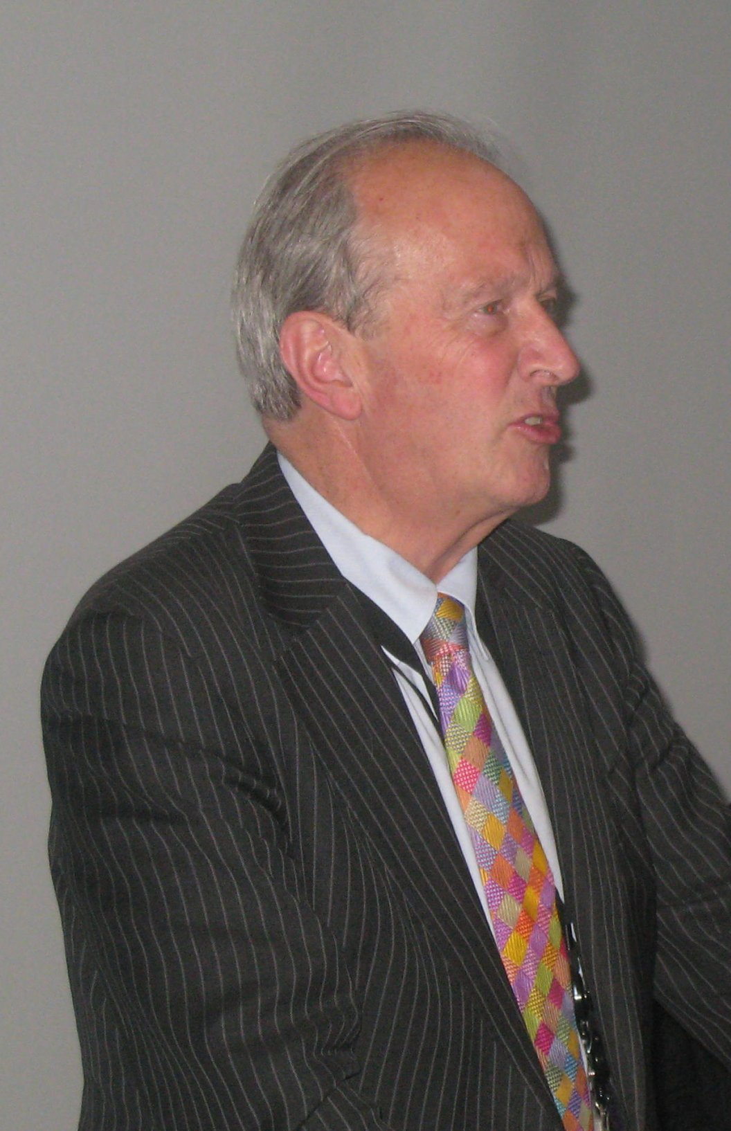 Lord David Hunt of Wirral